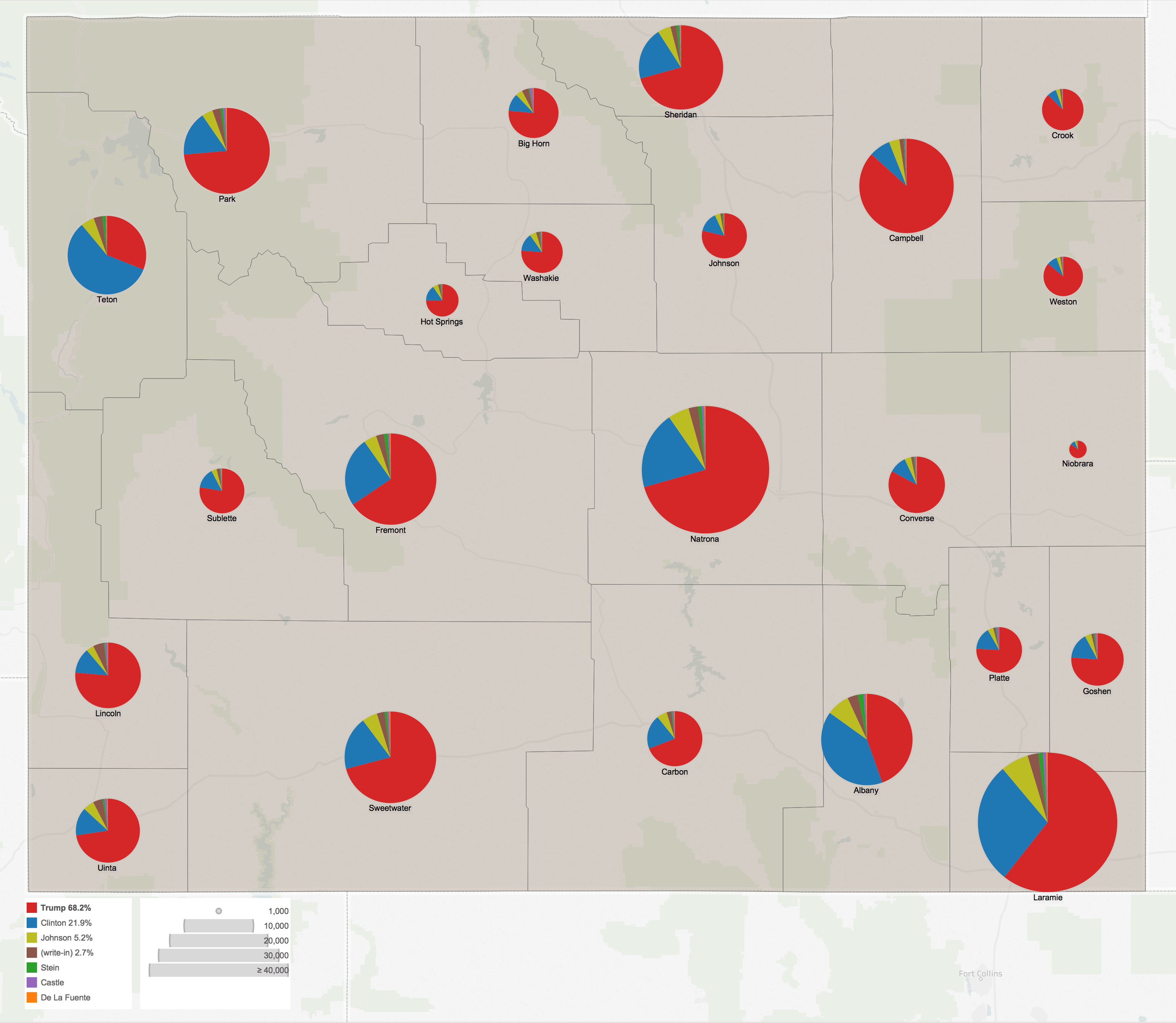 United States presidential election in Wyoming, 2016 results results by county showing number of votes by size and candidate by color. Source: 2016_Wyoming_General_Election_Results.zip (ZIP, XLSX) via 2016 Official General Election Results Wyoming Secretary of State's Office. Accessed December 15, 2016. CountyTrumpClintonJohnson(write-in)(under vote)SteinCastleDe La Fuenta(over vote) Albany7,6026,8901,3916371693441336316 Big Horn4,0676042422368735112212 Campbell15,7781,32465326413066862822 Carbon4,4091,279381174794961218 Converse5,520668251102474251205 Crook3,3482731185237111863 Fremont11,1674,2007734801912331106027 Goshen4,41892423488784568196 Hot Springs1,93940013651473521411 Johnson3,4776381746850331985 Laramie24,84711,5732,6571,0193754343241159 Lincoln6,7791,1053314778648112239 Natrona23,5526,5771,7918182993102267470 Niobrara1,1161154917167731 Park11,1152,5356254611981511535518 Platte3,4377191806944368267 Sheridan10,2662,927729322176158763215 Sublette3,40964416993512834131 Sweetwater12,1543,2319284701651521306514 Teton3,9217,31470144916217243276 Uinta6,1541,20247241786791163014 Washakie2,91153219499453731106 Weston3,0332991084143102963 Date15 December 2016SourceOwn workAuthorDennis Bratland Licensing[edit]